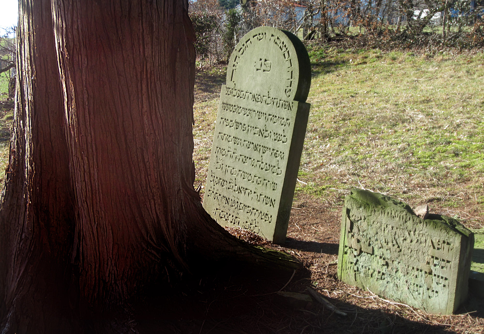 Jewish cemetery Schwelm - headstone of Sarah, wife of Michael Rosenthal (1842)